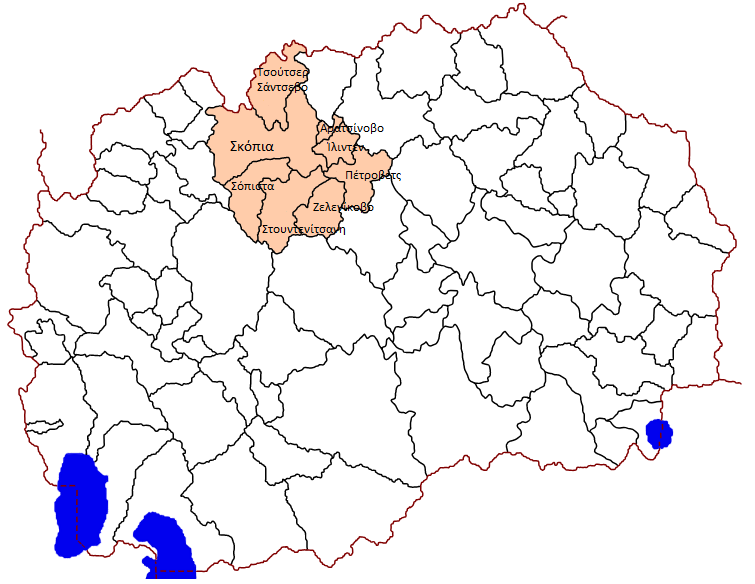 The municipalities of Skopje Statistical Region of North Macedonia in Greek language.